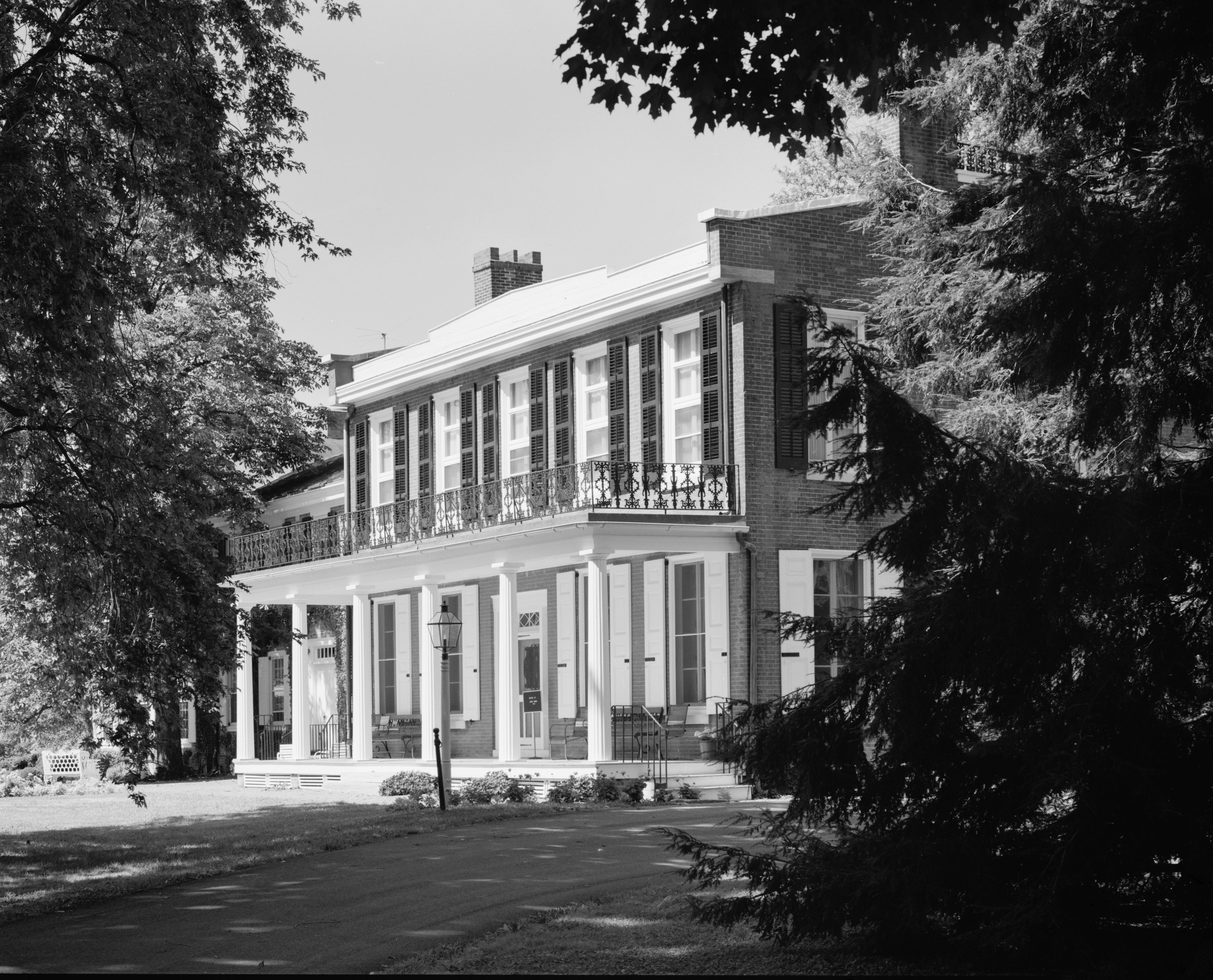 VIEW SOUTHWEST SHOWING EAST (FRONT) AND NORTH ELEVATIONS - Buena Vista, U.S. Route 13, South of U.S. Route 40, Tybouts Corner, New Castle County, DE